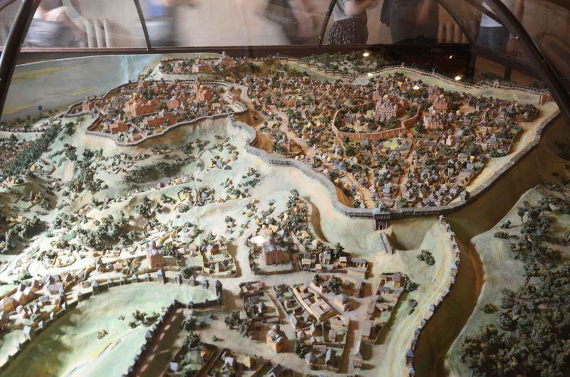 The model shows how ancient Kiev, the capital of Russia, looked like in 11th century. The segment on the hill on the left side was the most ancient part. It was the city's detinets or kremlin, and was called City of Vladimir. The bigger part to the right was called City of Yaroslav. The small part in the background was called City of Izyaslav.